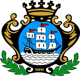 Blason